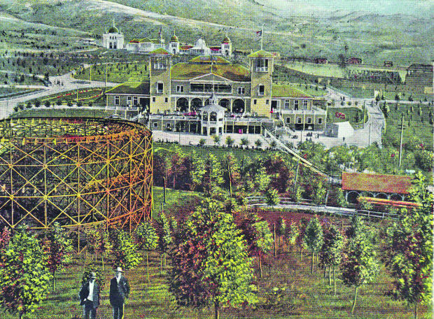 Postcard date 1905 of Columbia Gardens, an amusement park in Butte, Montana